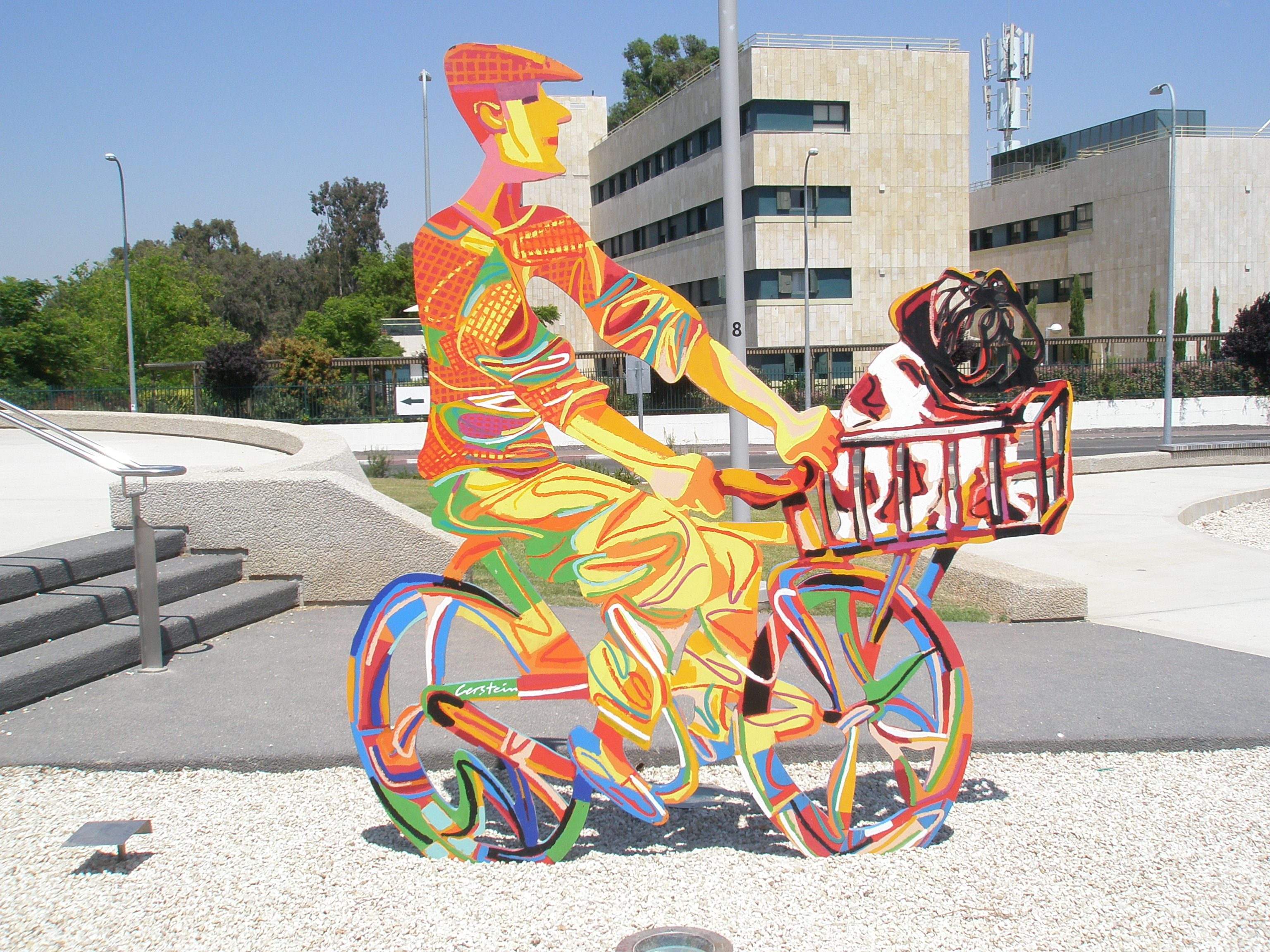 Bike Rider, by David Gerstein, Sheba Medical Center